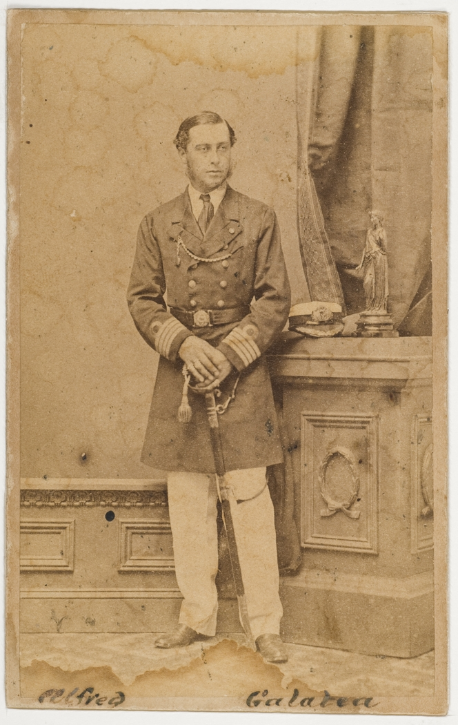 Duke of Edinburgh, Alfred Ernest Albert in undress captain's uniform of the Royal Navy, Sydney, ca. 1868, by Montagu Scott, carte de visit print, State Library of New South Wales, P1 / 14